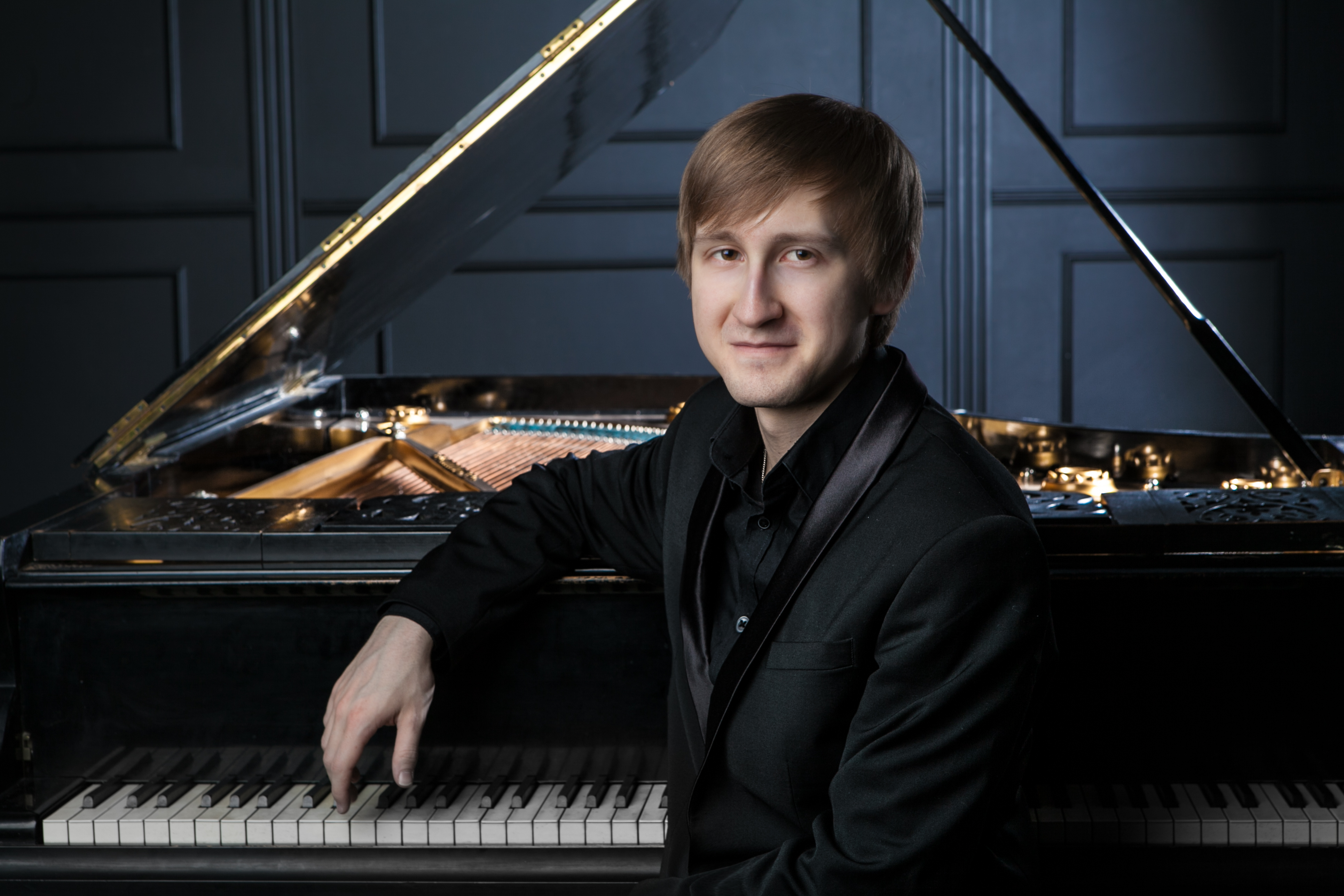 International Prize Winning Pianist Dmitry Masleev